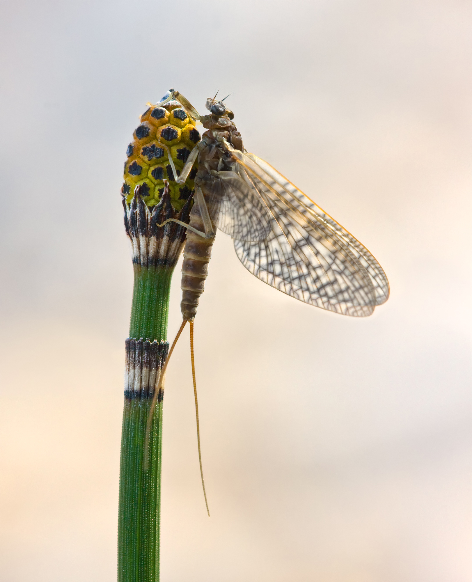 A female subimago of March Brown (Rhithrogena germanica) mayfly in the family Heptageniidae. Mayflies are insects which belong to the Order Ephemeroptera (from the Greek ephemeros, short-lived and pteron, wing, referring to the short life span of adults). They have been placed into an ancient group of insects termed the Paleoptera, which also contains the dragonflies and damselflies. They are aquatic insects whose immature stage (called naiad or, colloquially, nymph) usually lasts one year in fresh water. It is resting on a Rough Horsetail Equisetum hyemale stem.